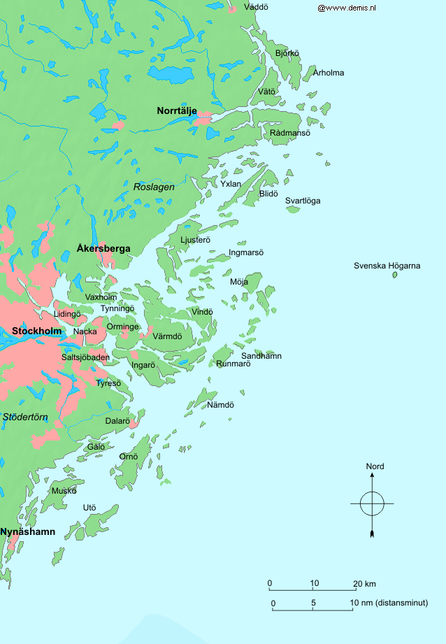 Stockholm archipelago in Sweden. Bounding box West 17.9°, South 58.7°, East 19.4°, North 60°. Center at 59°21′00″N 18°39′00″E / 59.35000°N 18.65000°E.